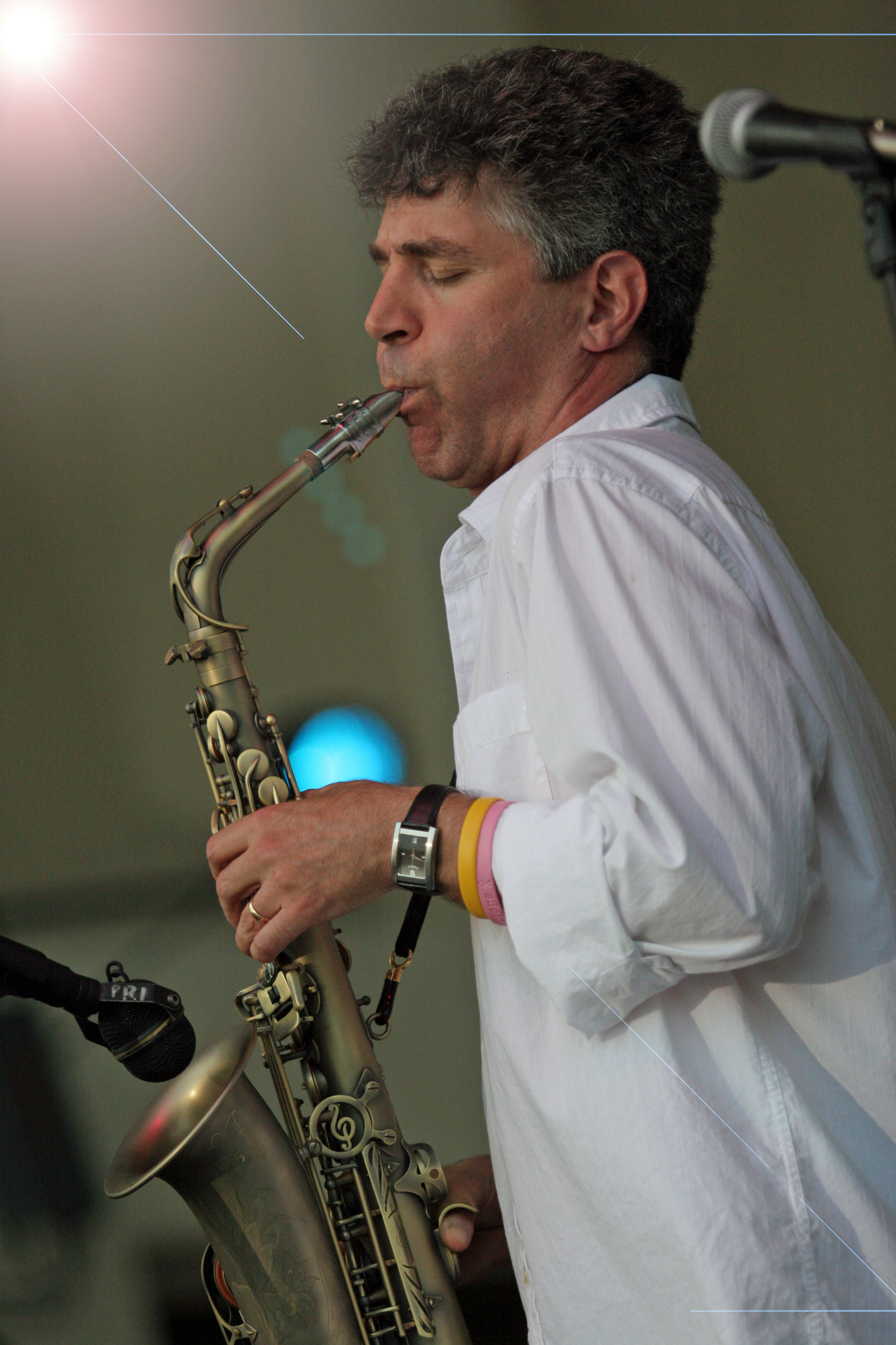 Nelson Rangell, American jazz saxophonist and flautist